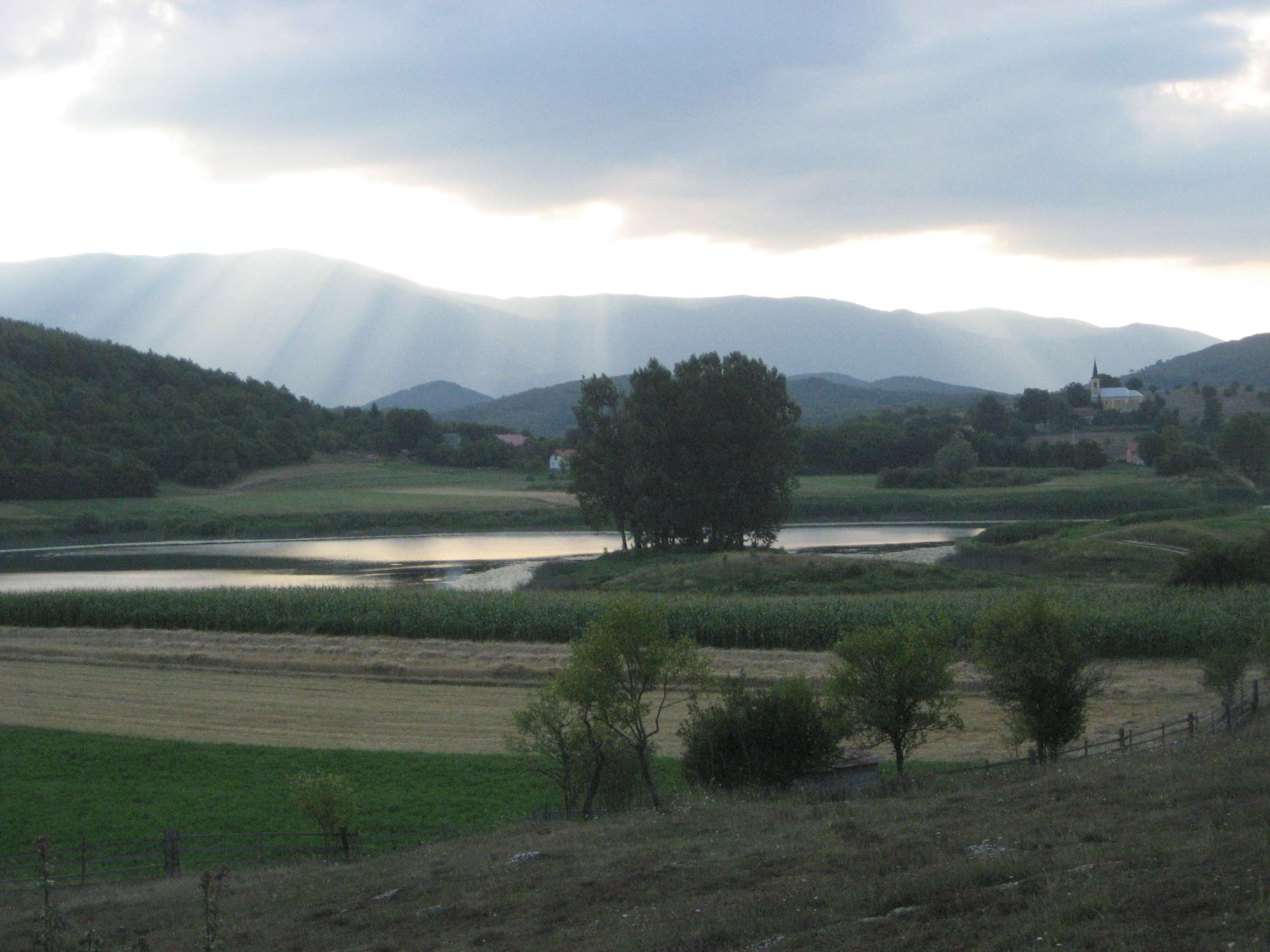 Gacko Polje, Croatia. Velebit mountains in the background.